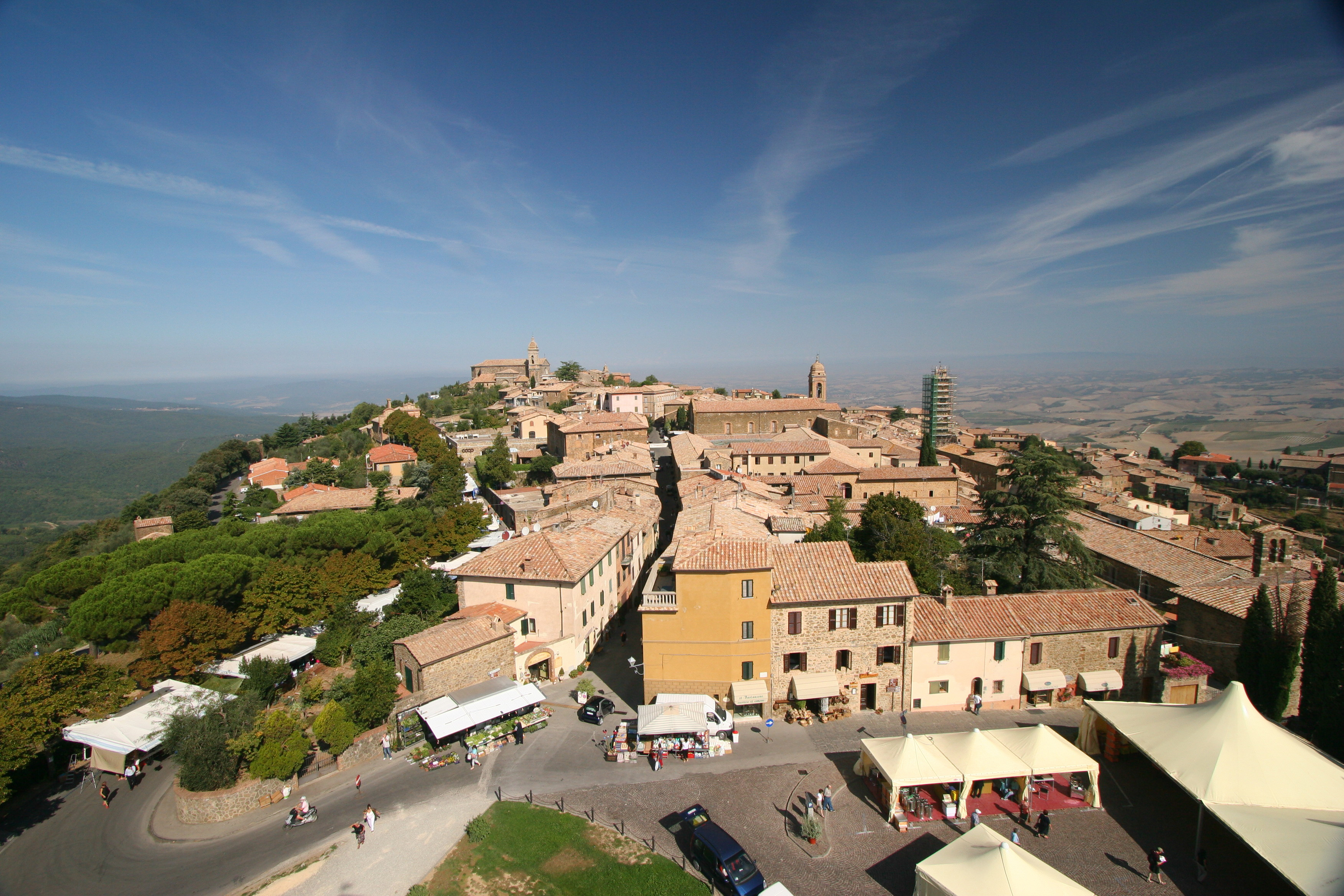 View of Montalcino from the Castle (Fortezza). Taken Sept 8th 2006 by me. Canon EOS 20D, 10mm focal length (16mm effective length)